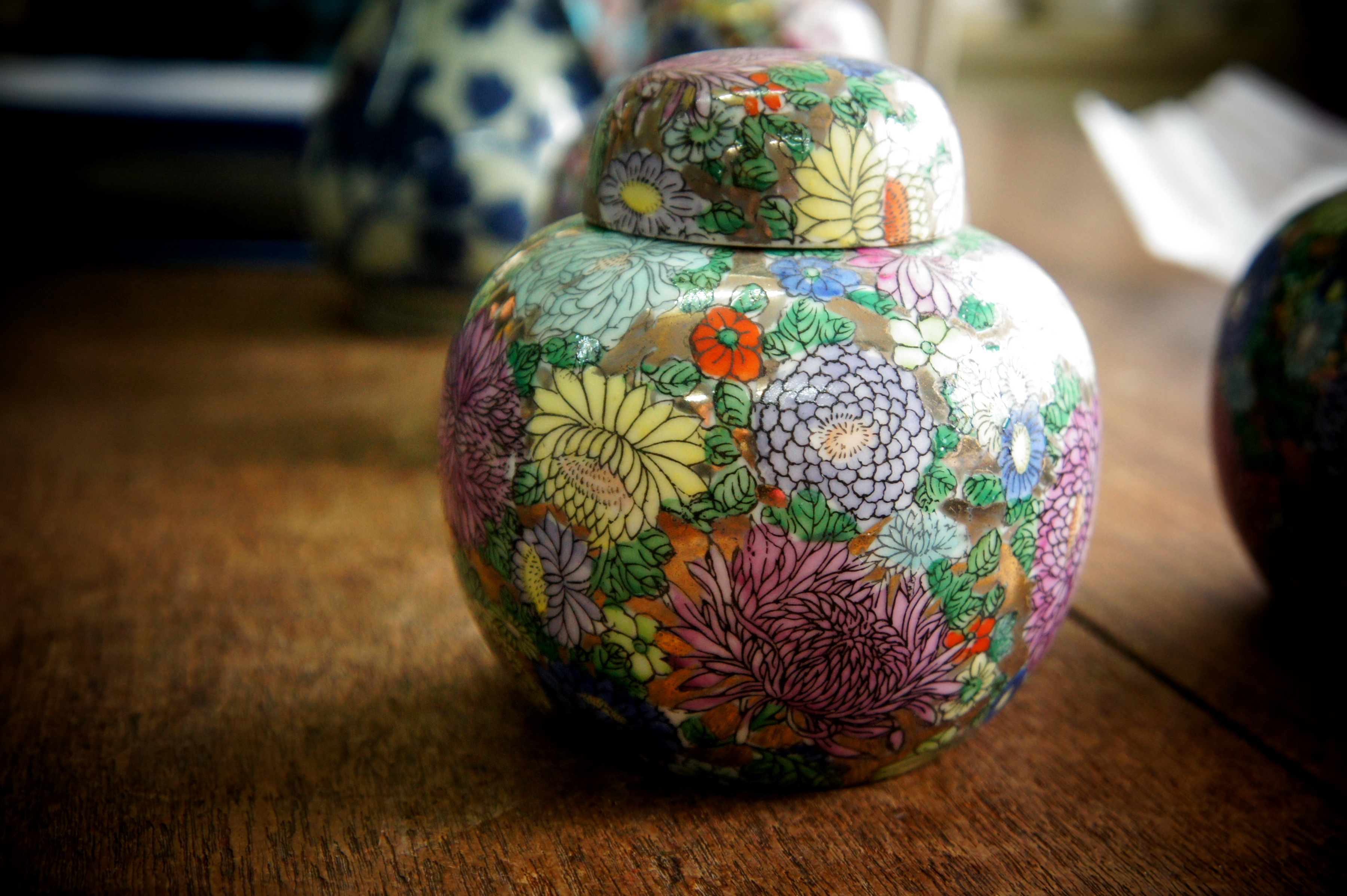 A Kwon-Glazed Porcelain Lidded Jar (ginger jar). Photo taken at Yuet Tung China Works, Hong Kong.